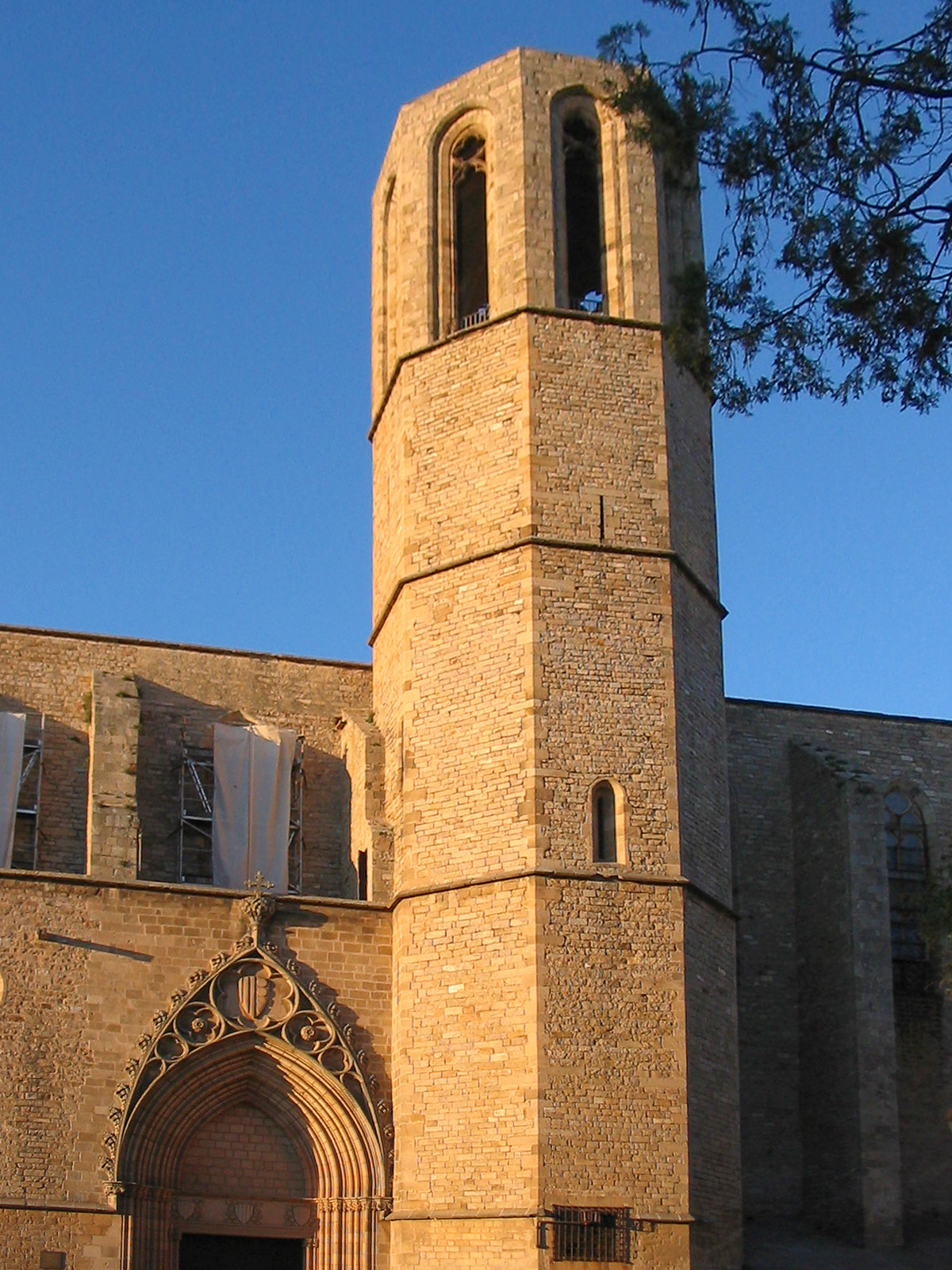 Cloister and church of Santa Maria de Pedralbes in Barcelona